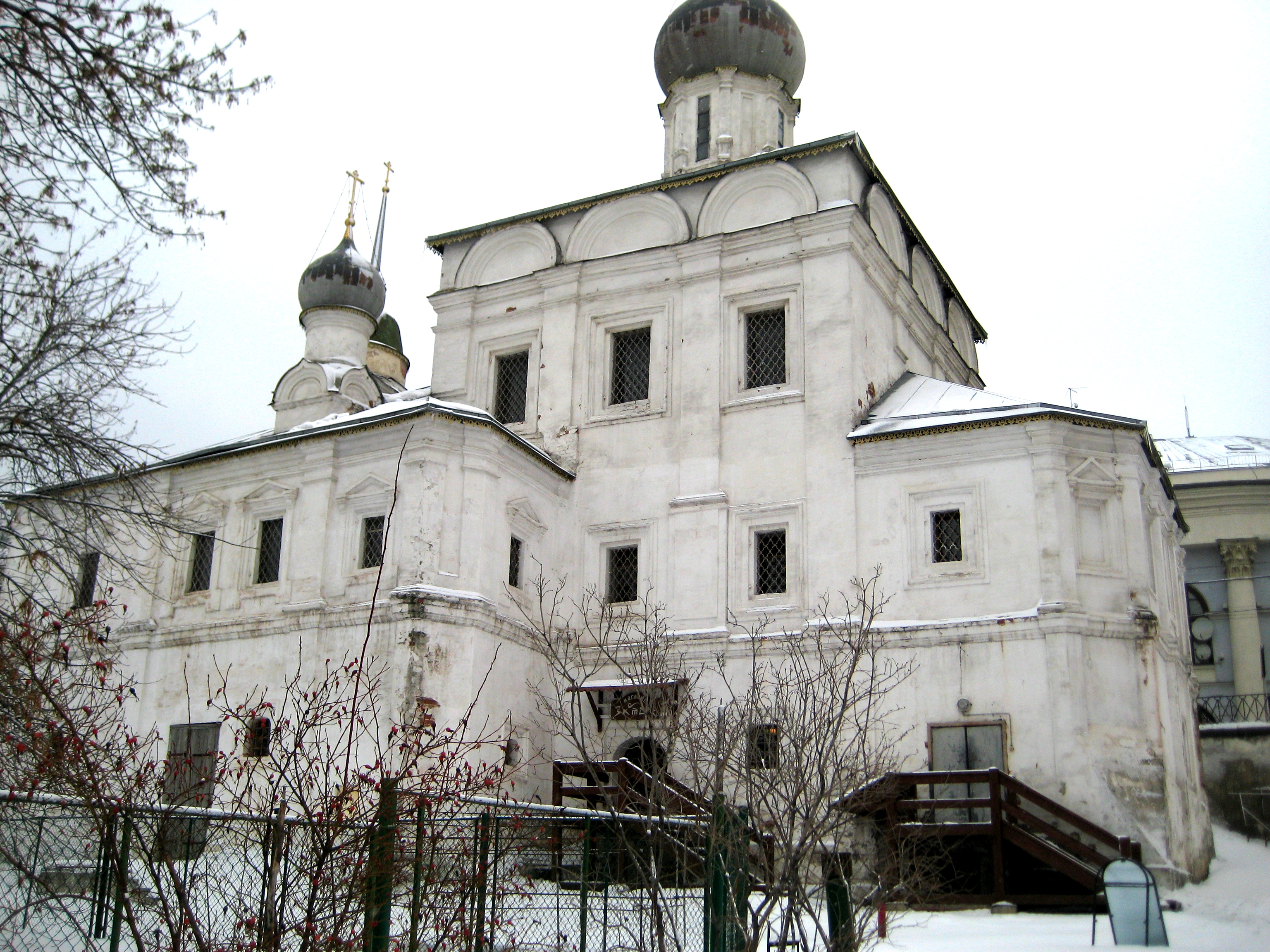 Church of Saint Maximus the Confessor in Varvarka